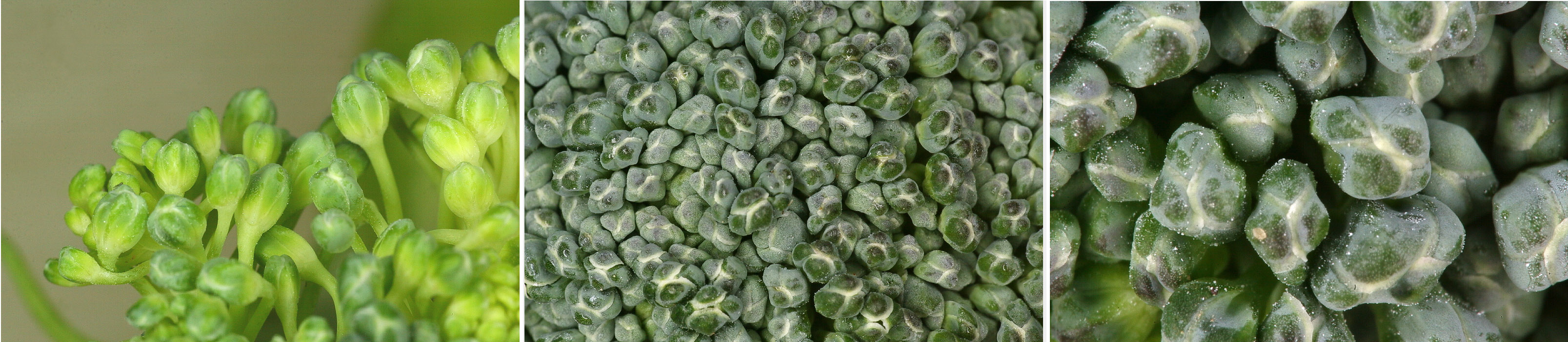 Extreme close-up of broccoli florets